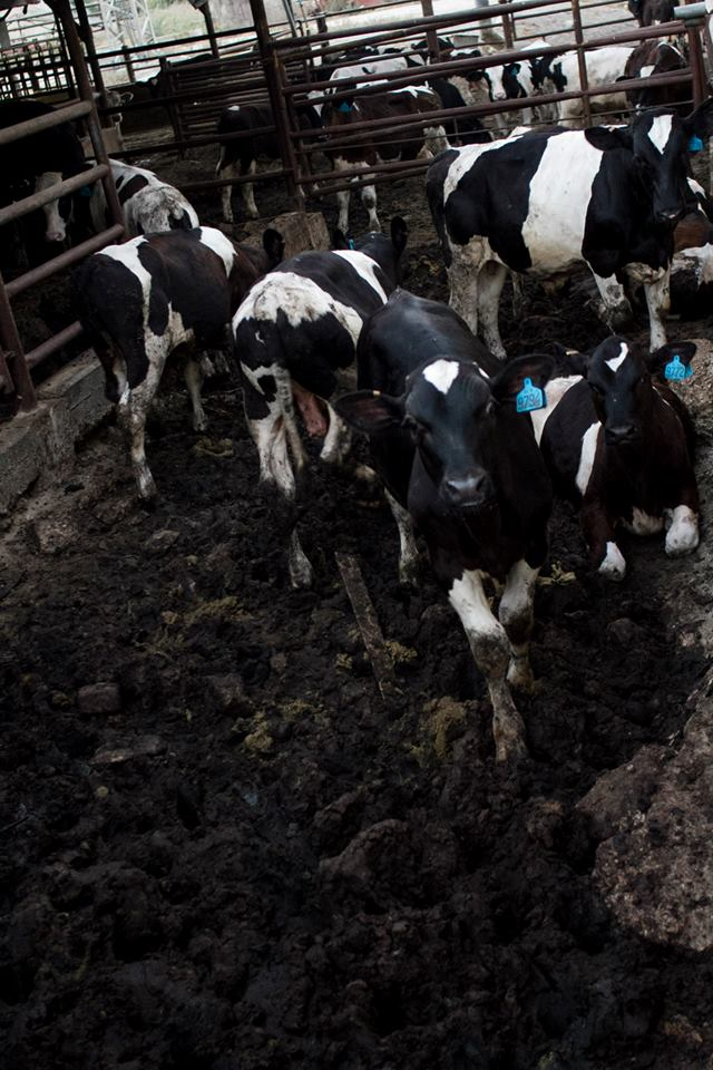 calves raised for meat in a daiy cowshed in kibbutz Ein Hamifraz Israel